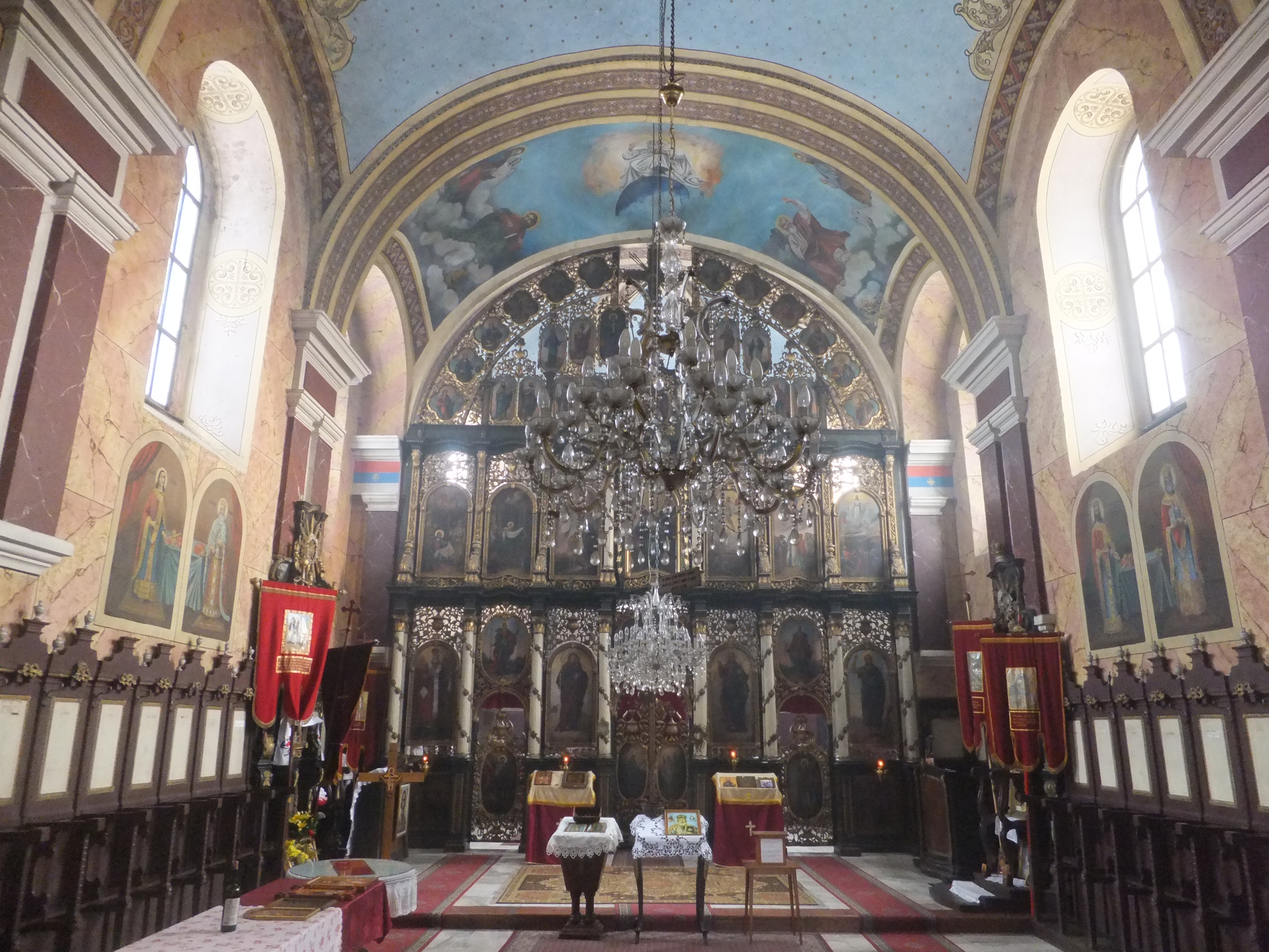 Church of Saint Nicholas in Dobanovci, interior